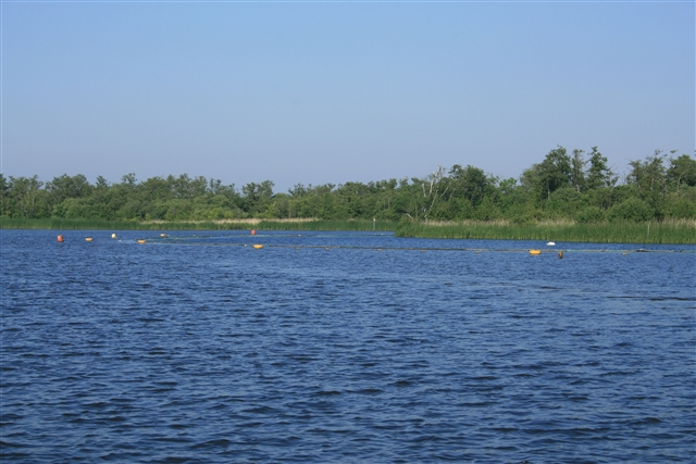 Restoration measures, Barton Broad Barton Broad used to suffer from severe eutrophication and silting. The nutrient-rich mud was pumped out, and an ecological intervention put in place - excluding fish from certain areas, in order to increase the population of Daphnia (water flea) and thereby control the algae. Lower algae levels mean clearer water, and greater plant growth, which in turn provides shelter for Daphnia from predation by fish. This photo shows one of the fish "exclosures" - below the floats, mesh curtains hang to the bottom of the broad.